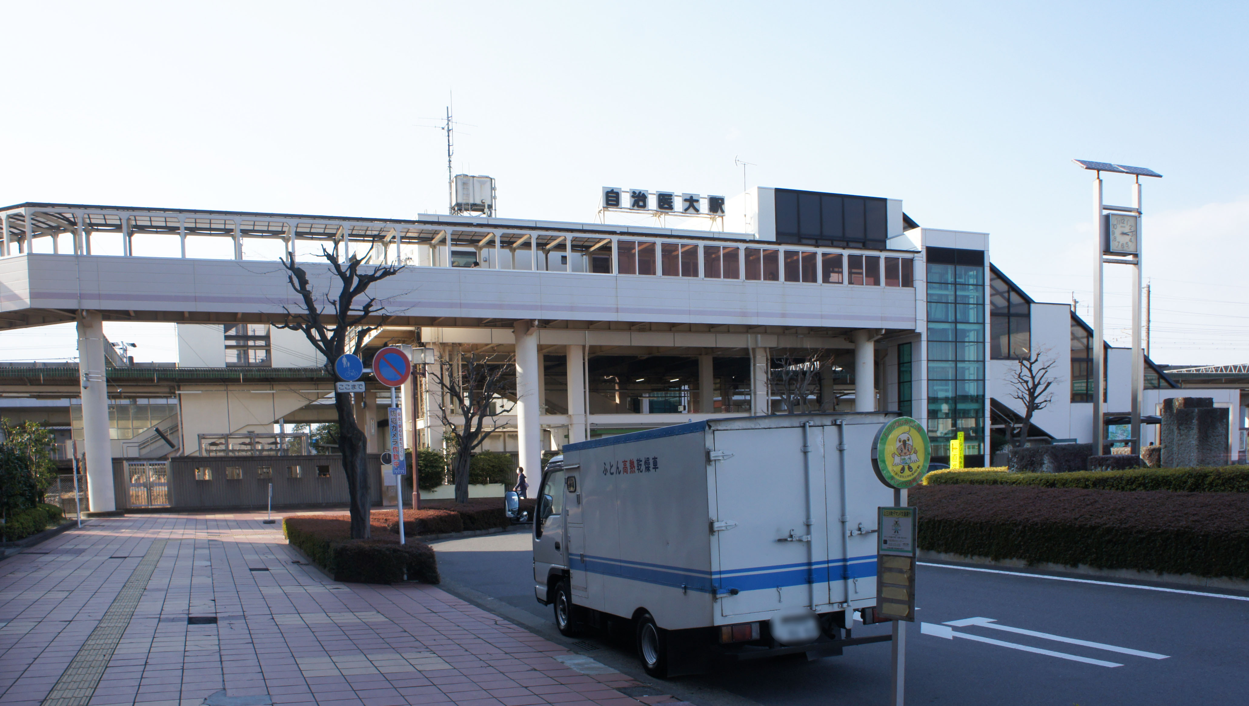 East Exit of JR Tohoku-Main-Line (Utsunomiya Station) Jichi Medical University Station Sony NEX-3